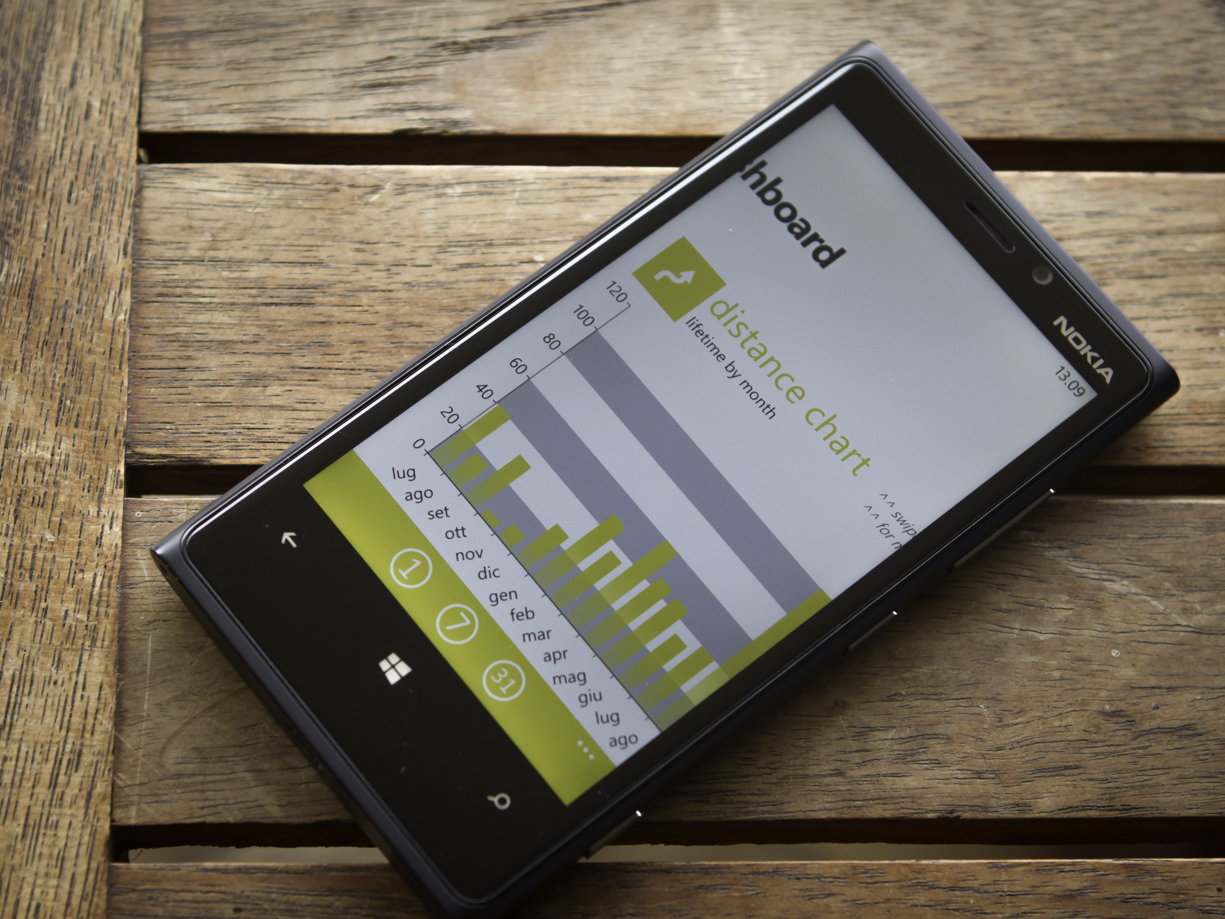 Nokia Lumia 920 smartphone running the Caledos Runner app.